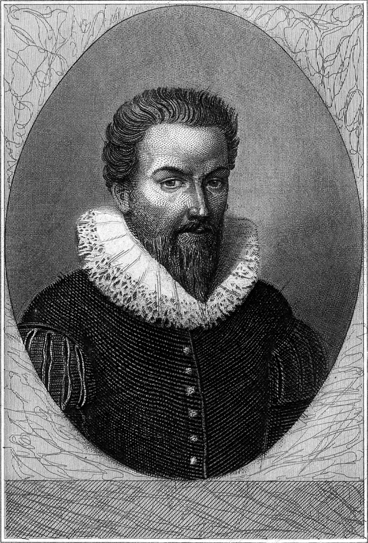 Nicolas Vauquelin Des Yveteaux (1567-1649), French libertine poet.